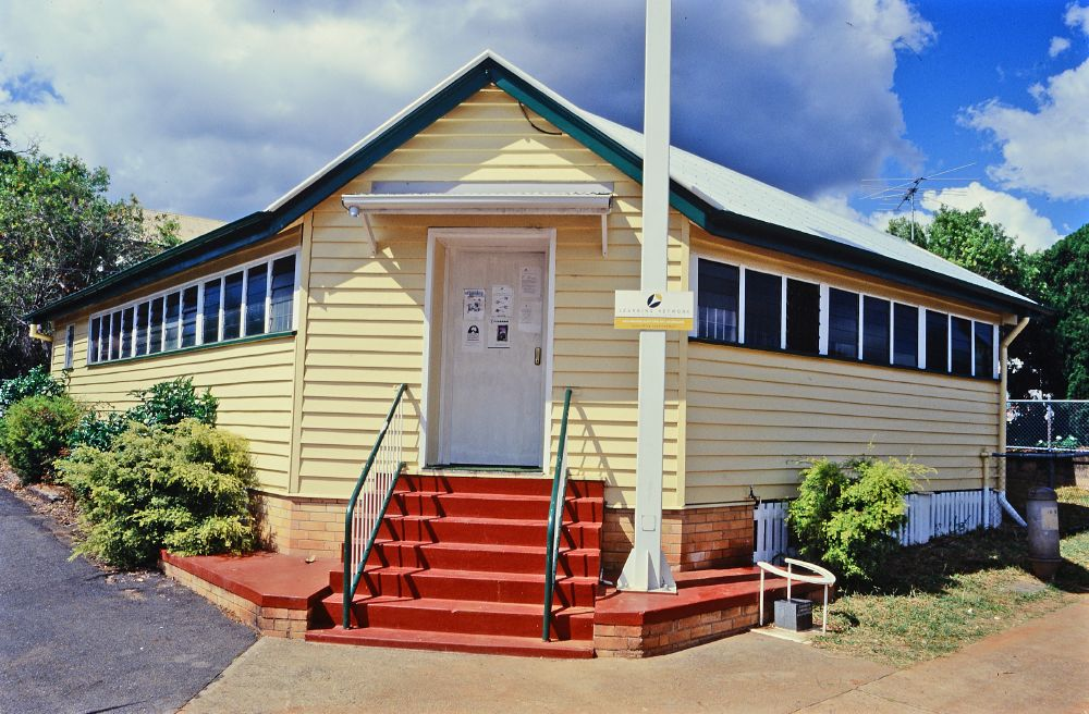 Commonwealth Bank (former), from NW (2001), Mount Morgan